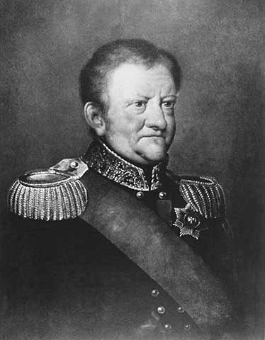 Charles Augustus, Grand Duke of Saxe-Weimar-Eisenach (1757-1828) Portrait by Jagemann